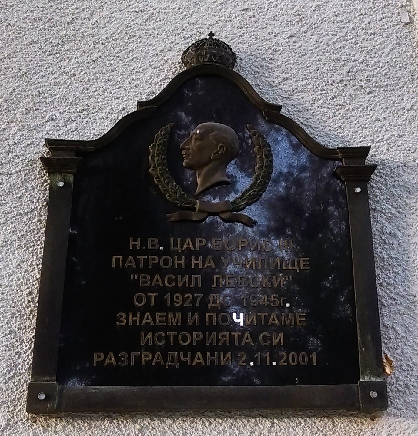 Memorial plaque of tsar Boris III, Primary School "Vasil Levski" (Razgrad)